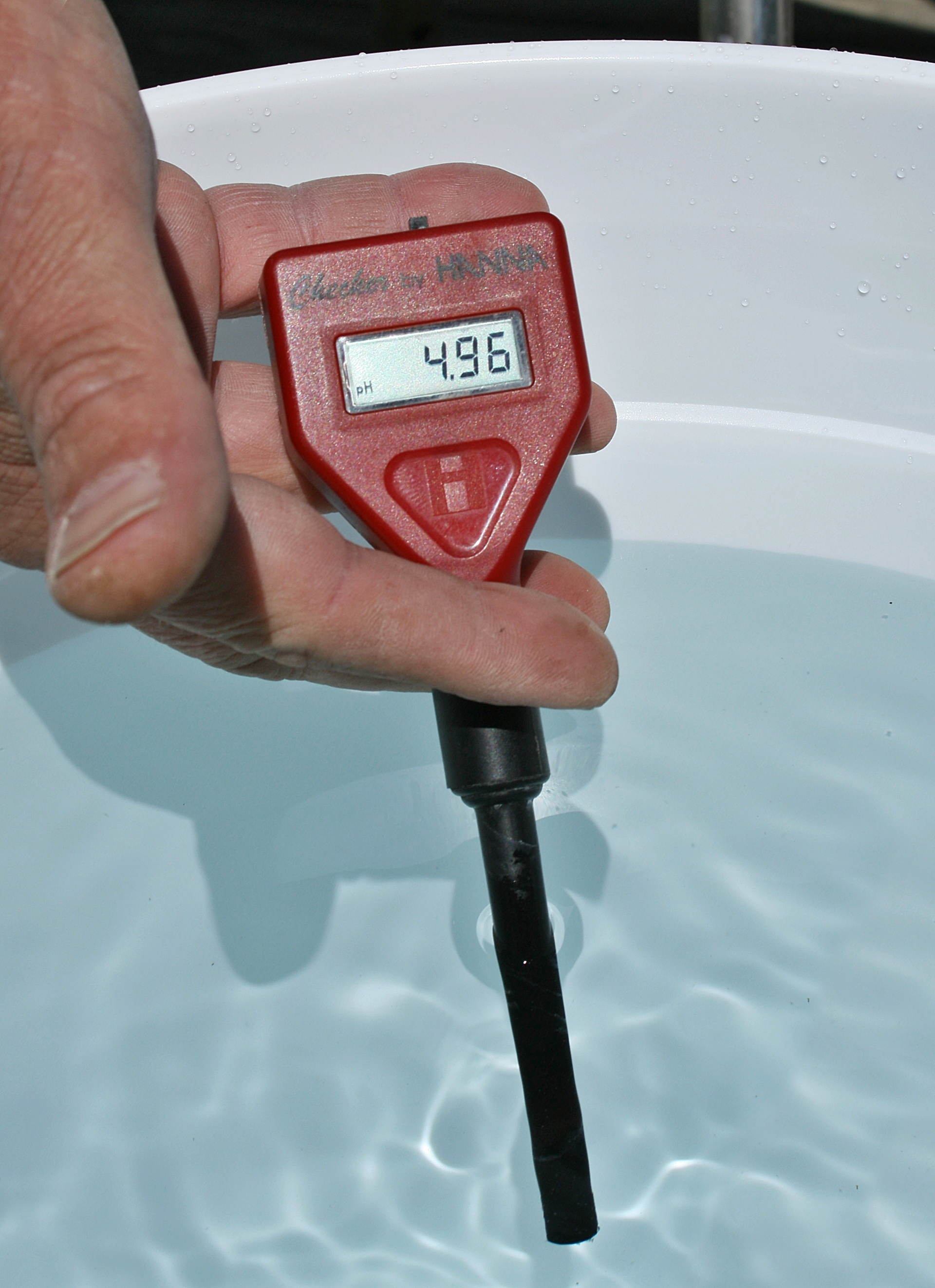 Rix Dobbs uses a pH meter to measure the acidity of water in a bucket.